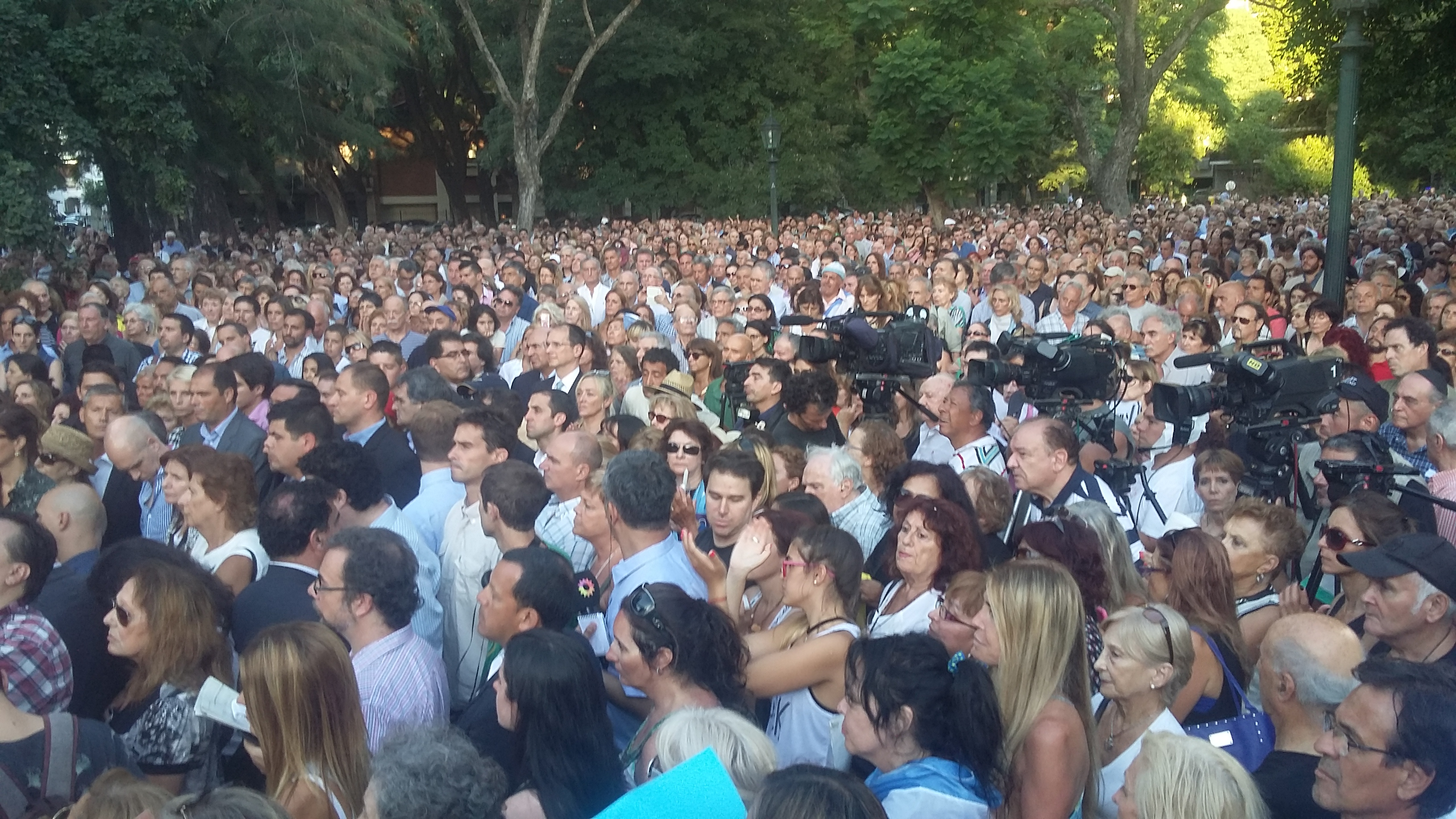 Protest march in Buenos Aires 1 year death anniversary of Alberto Nisman